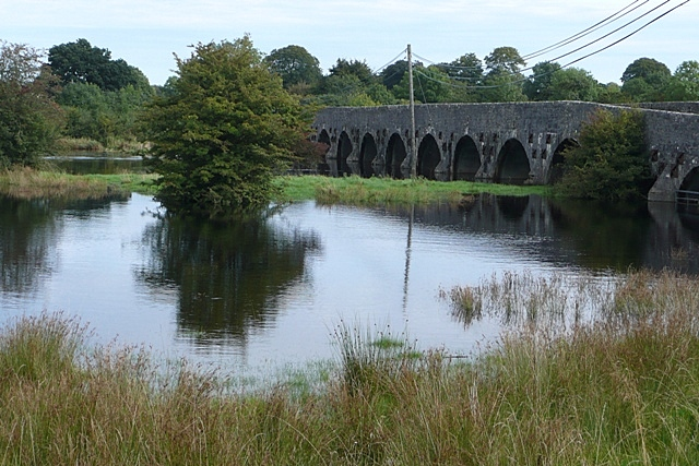 Ballyforan Bridge, near to Creeharmore, Ireland. From the County Galway side, looking across the River Suck to County Roscommon. The river is swollen with summer rains and currently extends through the fields up to the road, which is normally 100 metres away from the river.